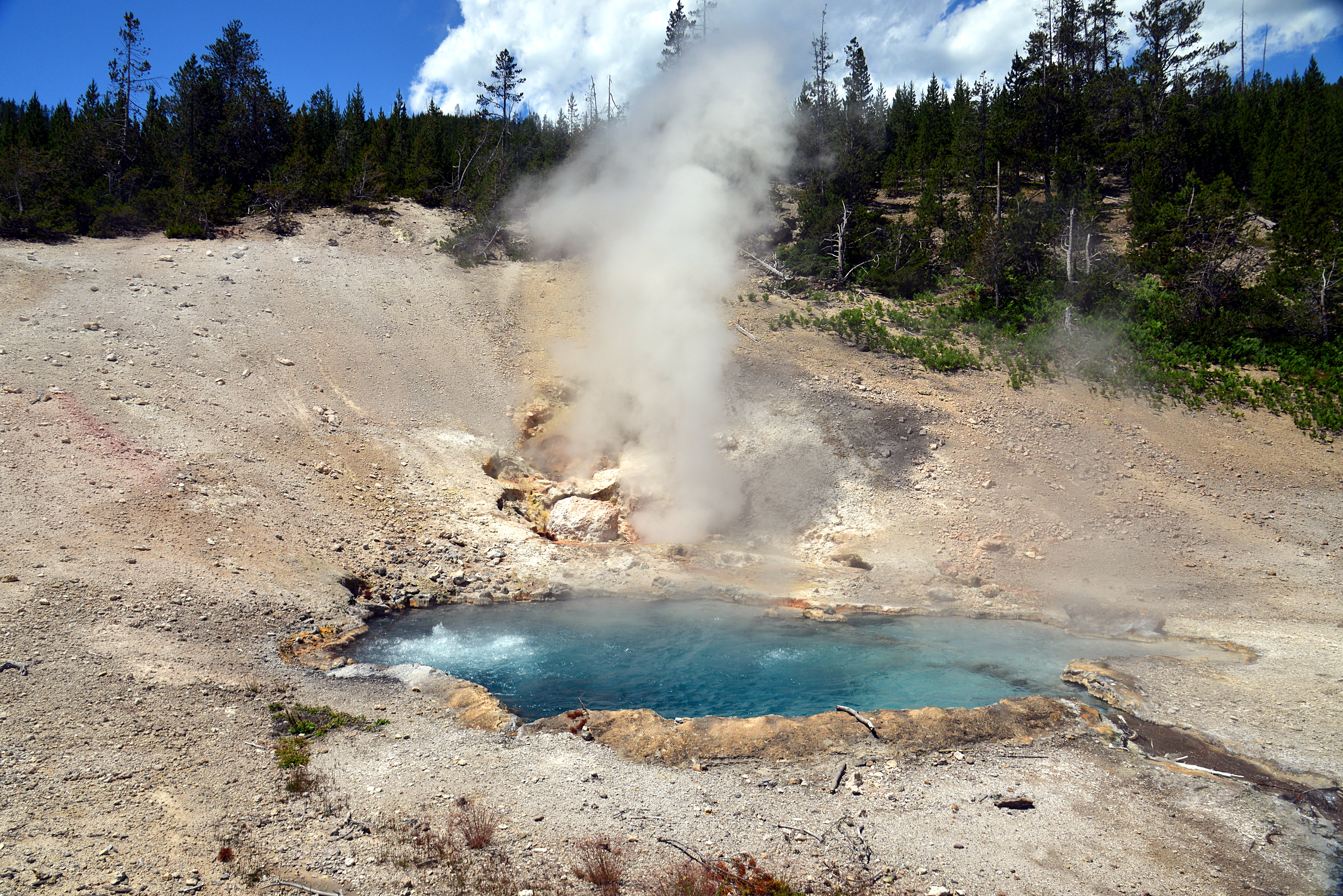 Beryl Spring bubbles and a fumarole releases steam.